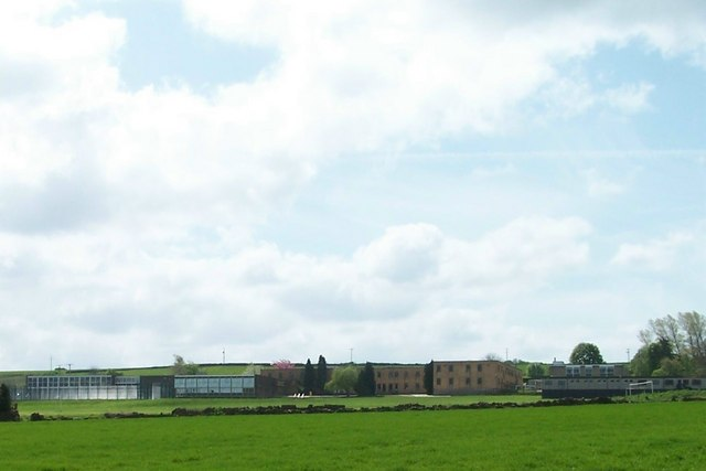 Bradfield School - 2, from Birtin Footpath, Worrall 1281902